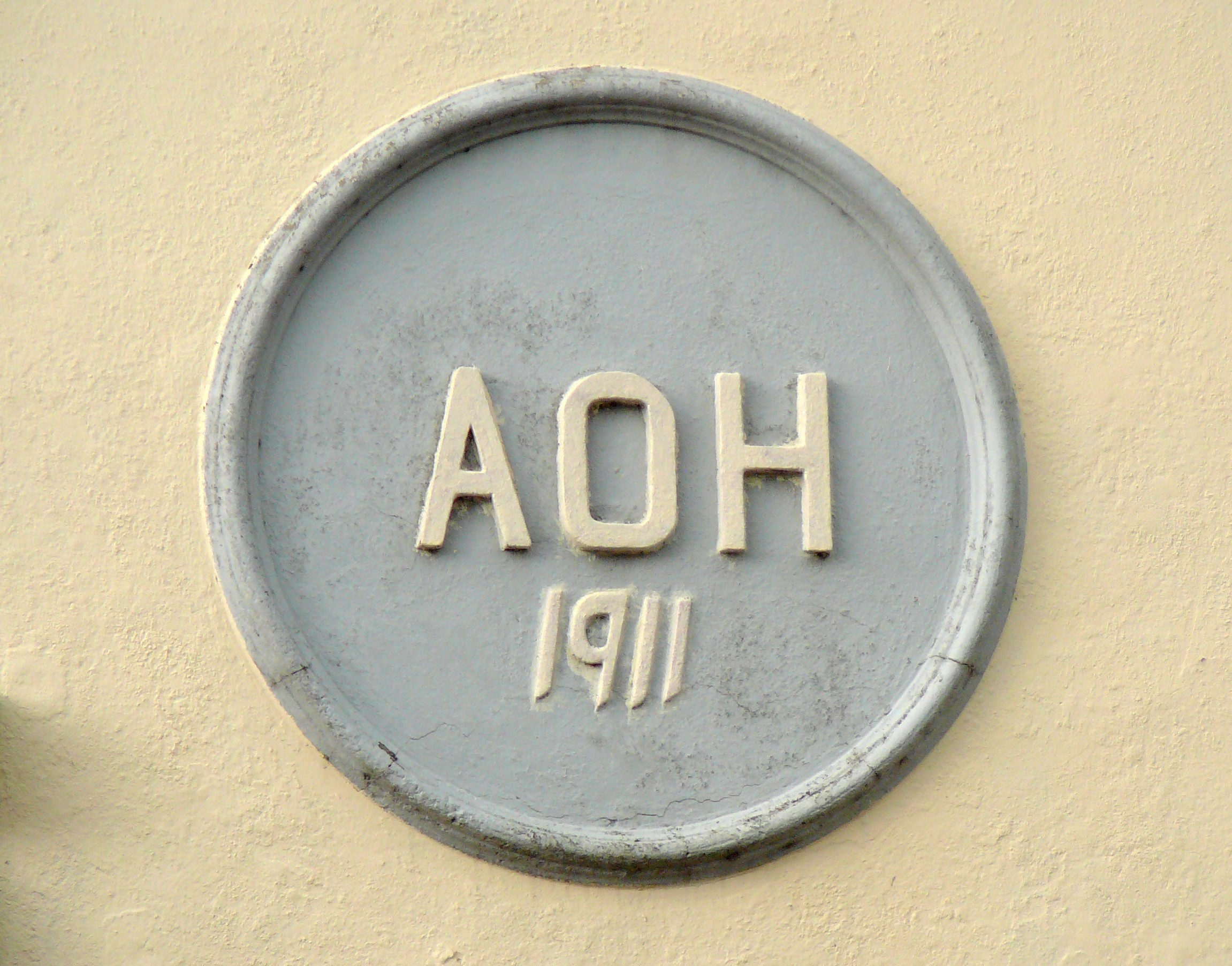 Ancient Order of Hibernians (AOH) plaque dated 1911 on a building in the Church Street, Kanturk, Co Cork, Ireland